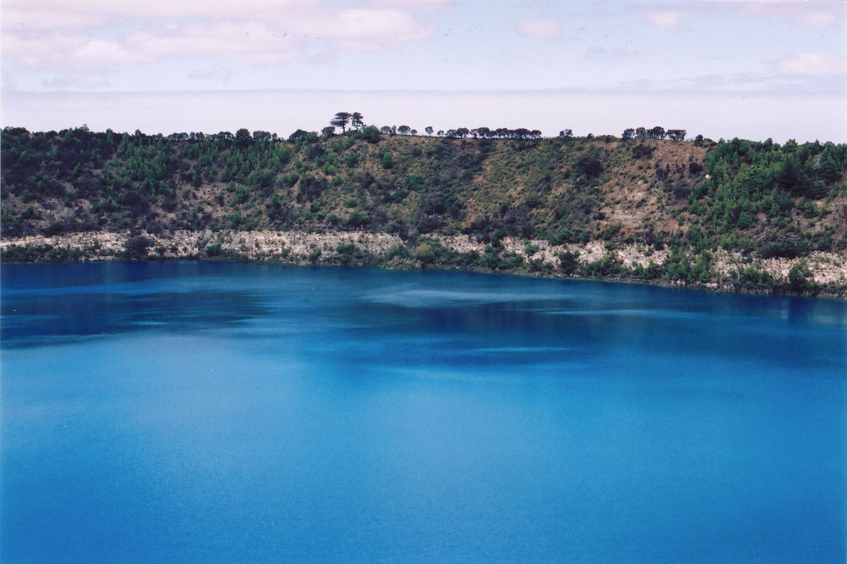 The Blue Lake, Mount Gambier. Photo taken in March 2004.